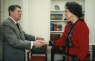 Ronald Reagan and Elinor G. Constable in 1987 in Oval Office